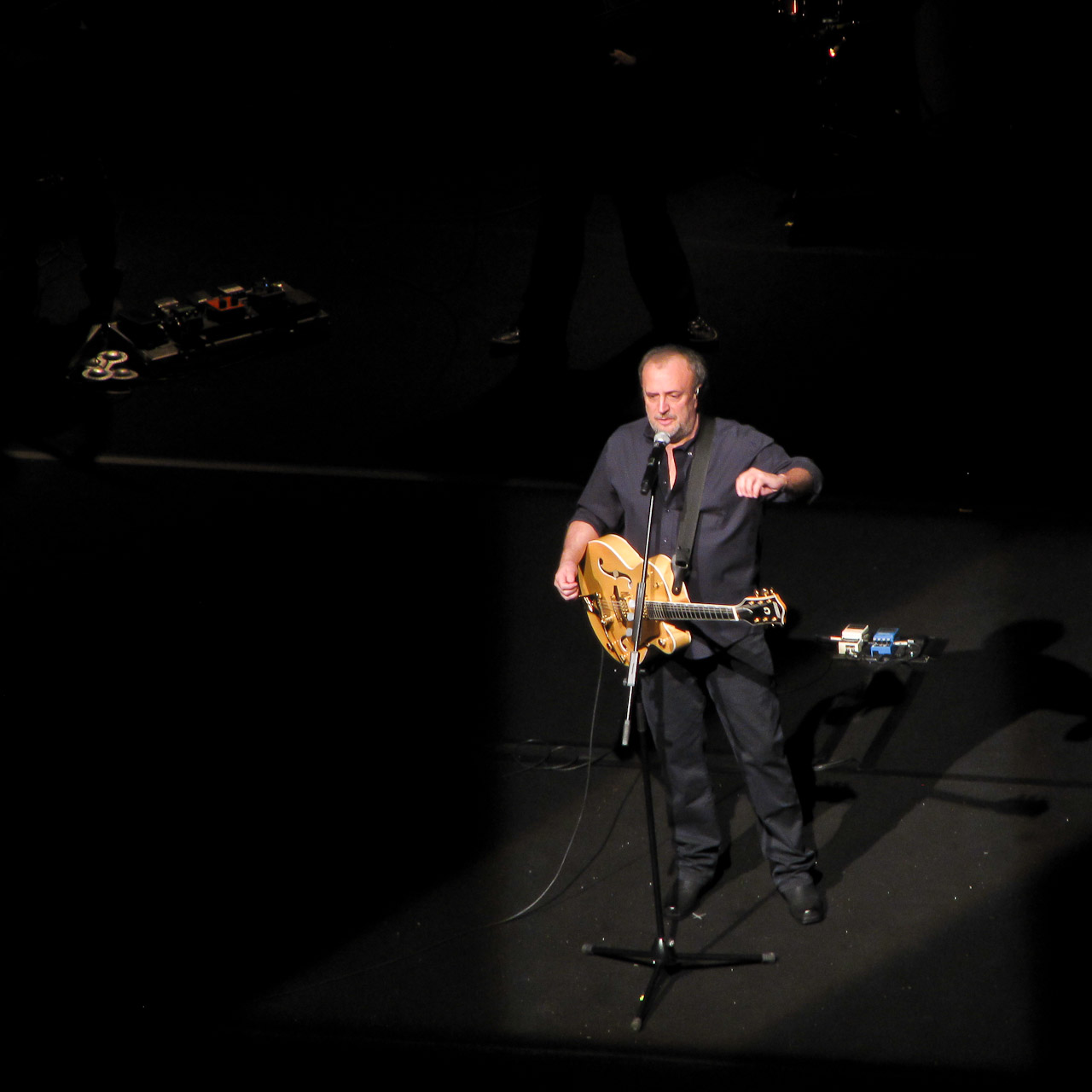 Italian singer-songwriter Ivano Fossati performing in Milan in 2012 at the Teatro degli Arcimboldi